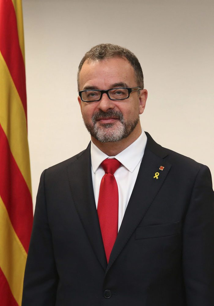 Catalan Minister of Foreign Affairs, Institutional Relations and Transparency